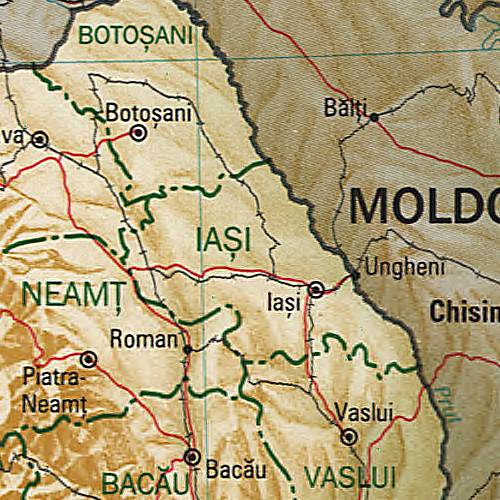 Map of Iași County, Romania.